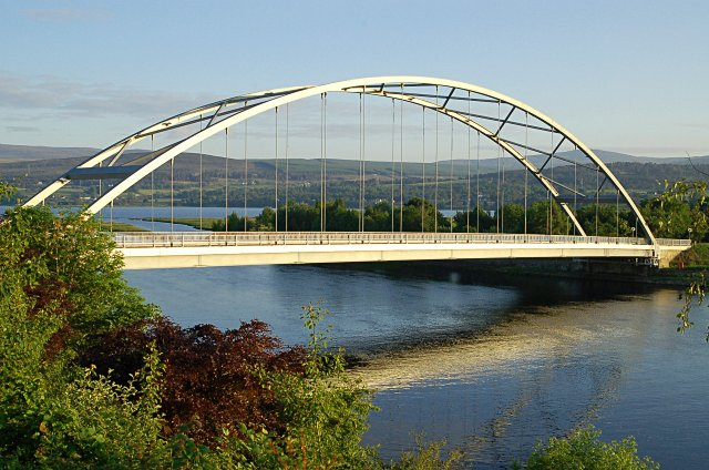 Bonar Bridge The latest version of the bridge from 1973.